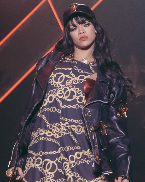 Rihanna performing at Kollenfest 2012